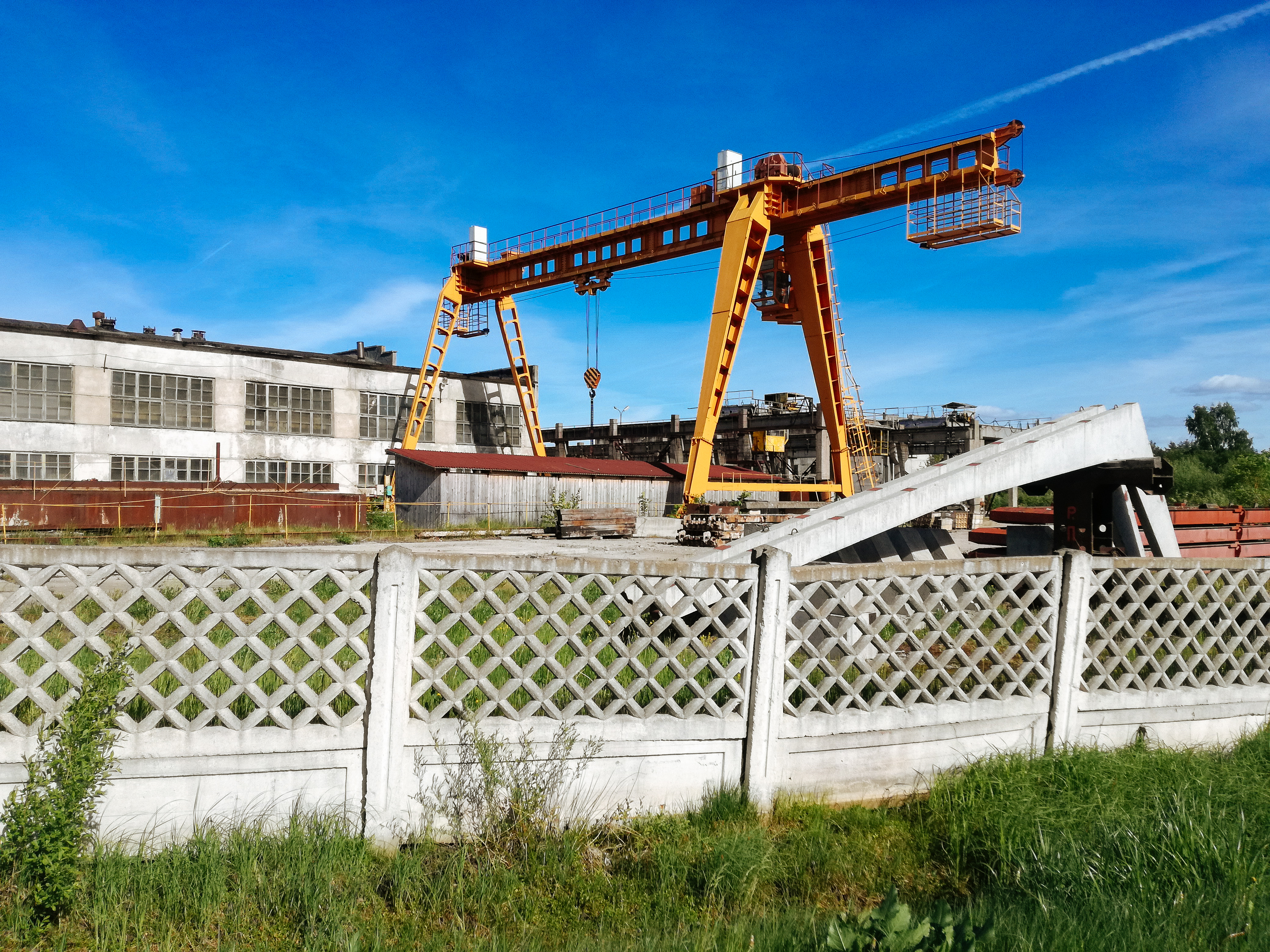 Voropaevo